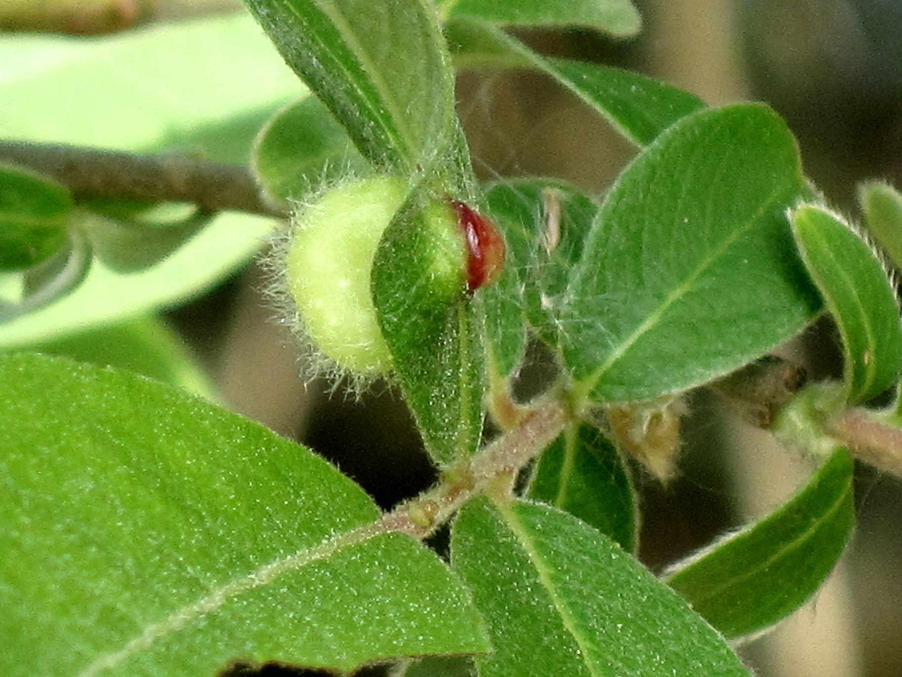 Pontania bella (sawfly sp.) induced gall on Salix aurita (eared willow), Arnhem, the Netherlands